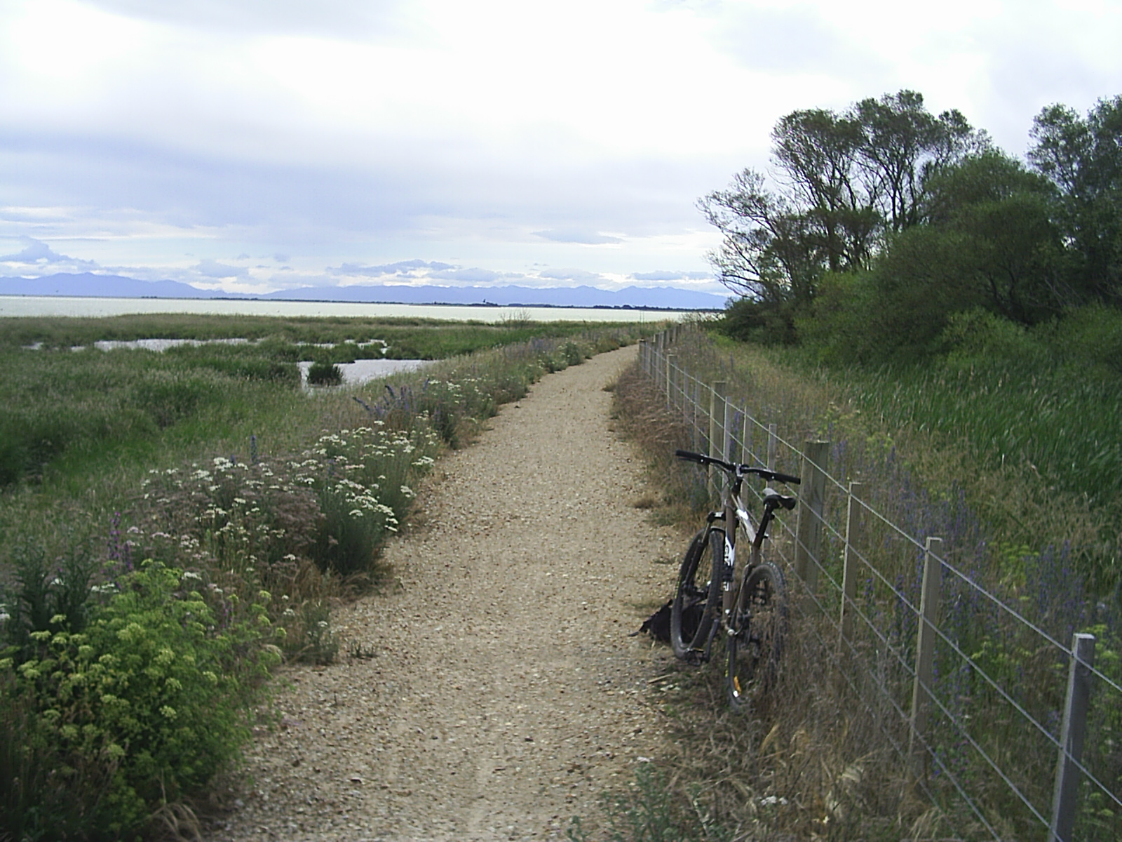 Little River Rail Trail at Lake Ellesmere, with the Southern Alps in the background.